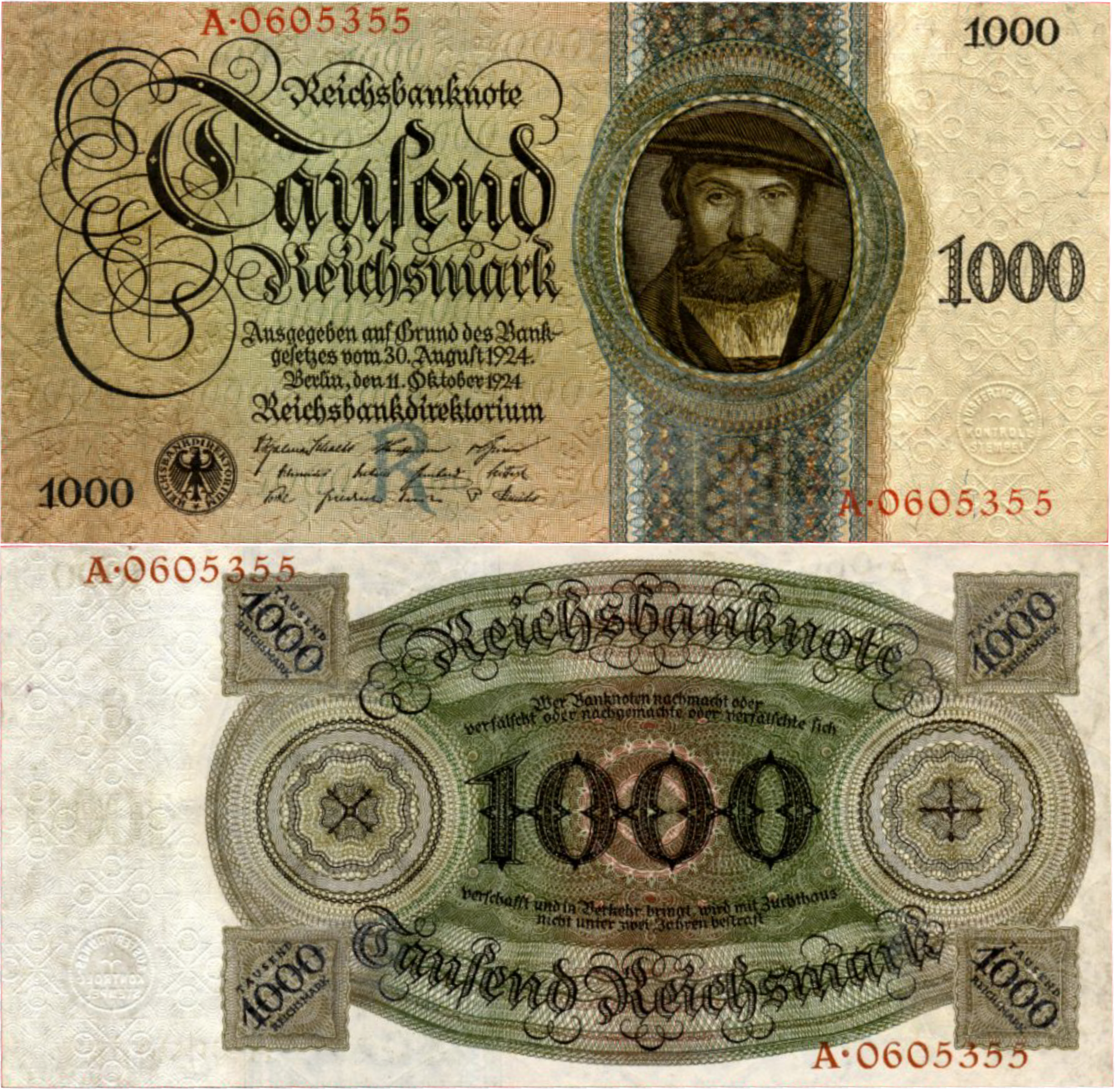 1000 Reichsmark dated 1924-10-11